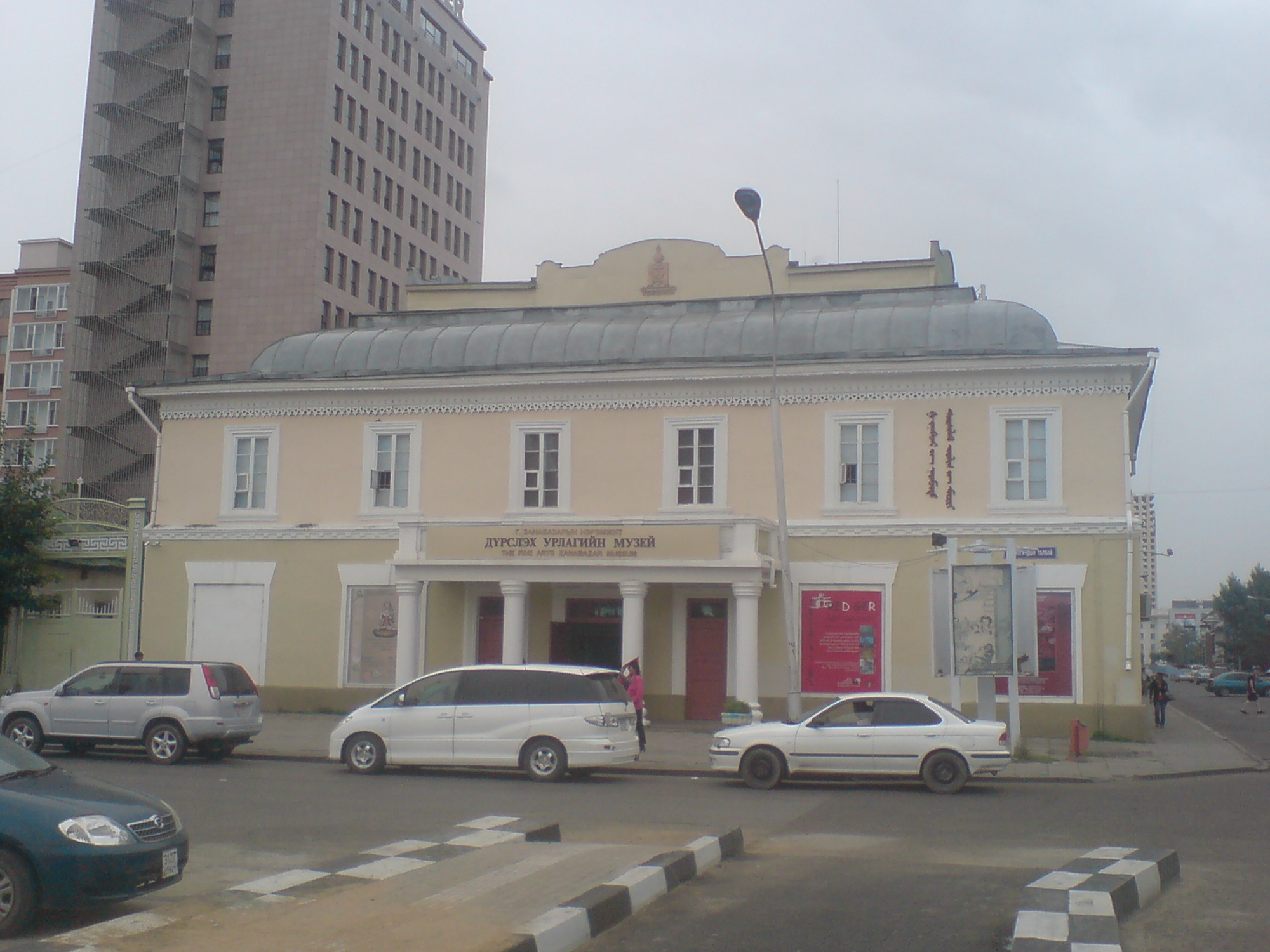 Zanabazar Fine Arts Museum, Ulan Bator